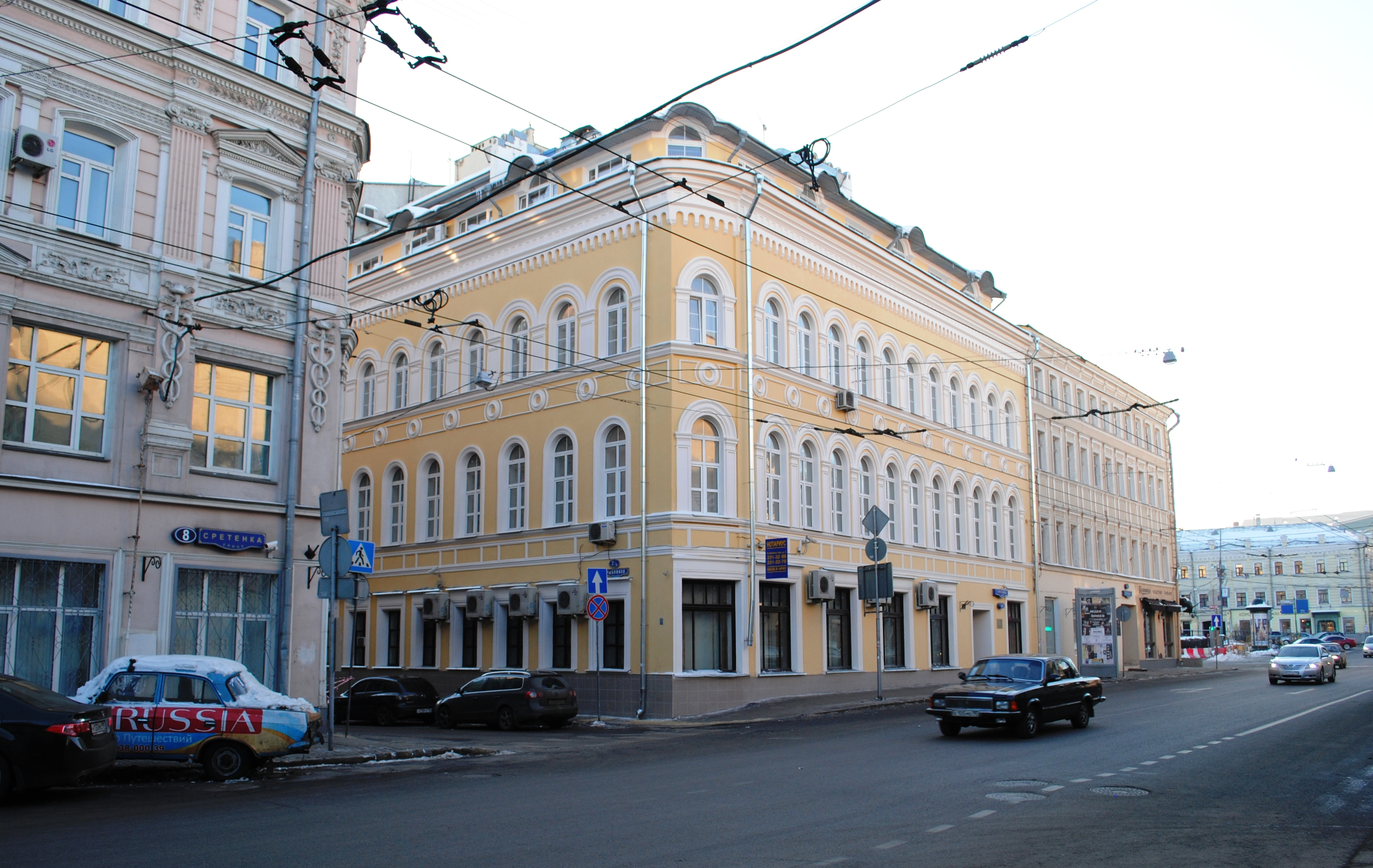 Moscow art college by 1905 year